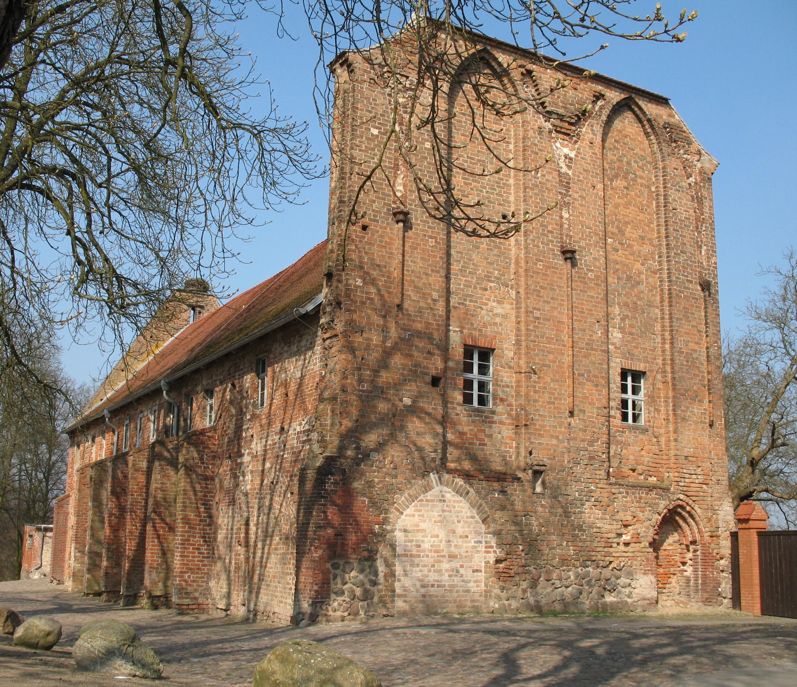 Former Franciscan Cloister in Gransee in Brandenburg, Germany